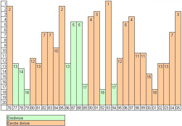 Dutch league positions of VVV, last 30 seasons